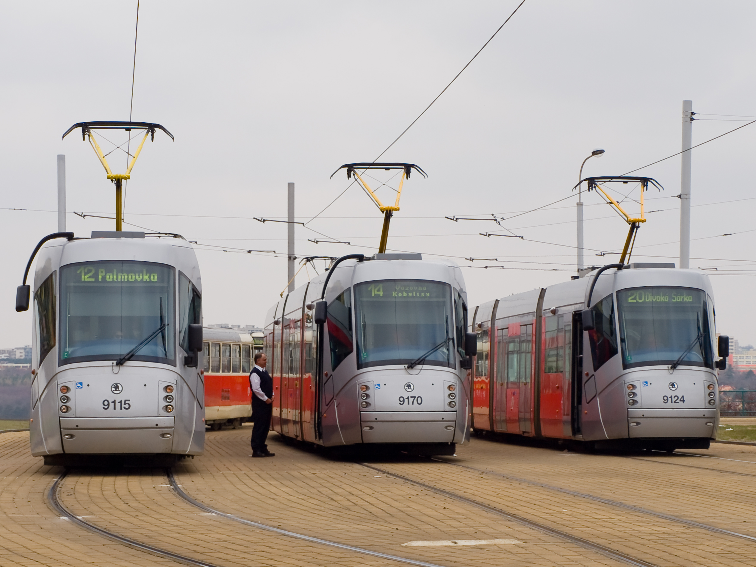 Three trams Škoda 14T in Sídliště Barrandov tram loop, Prague